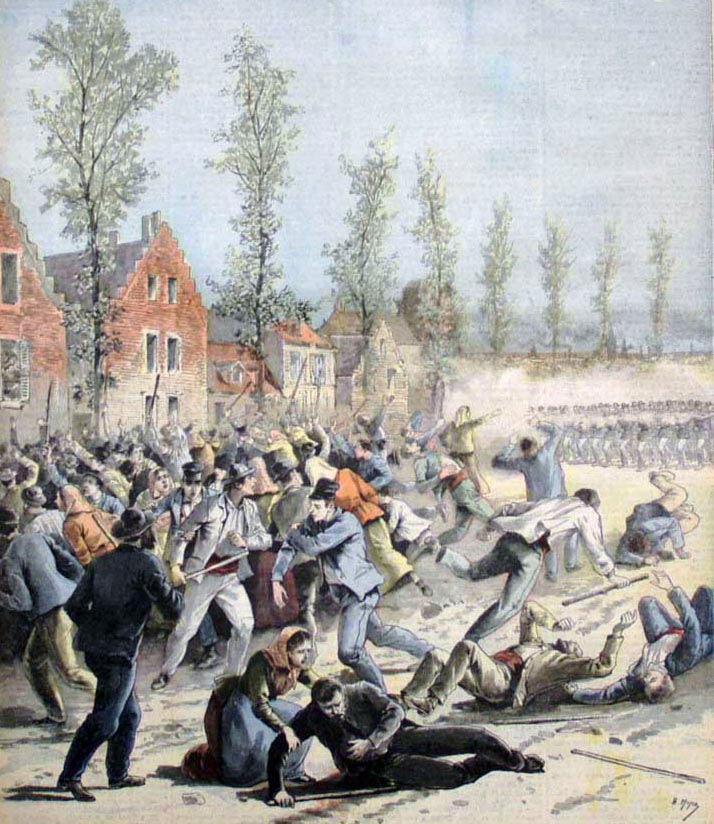 Riots of Mons, 1893 Walon: Berdouxha a Mont e 1893